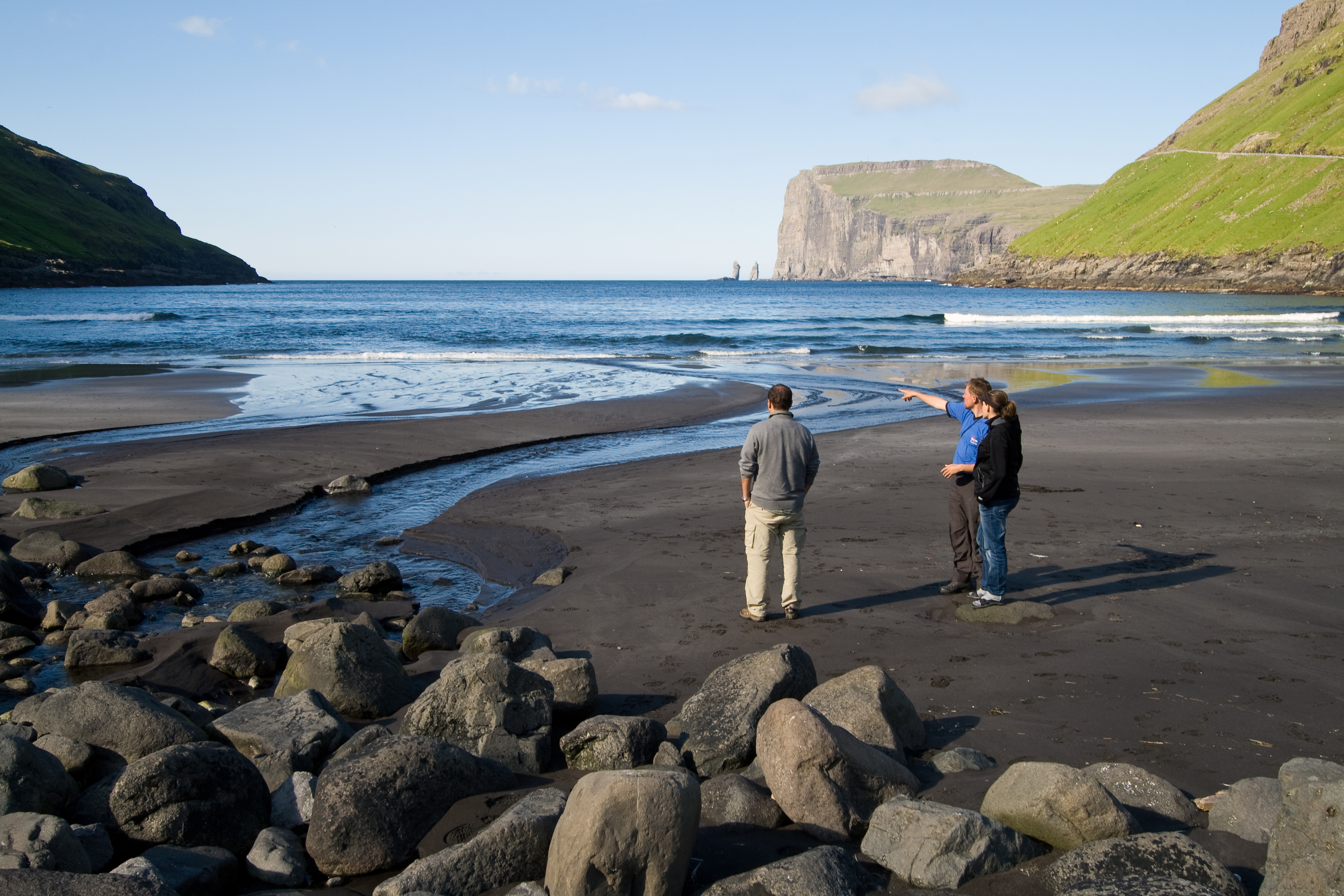 Tjørnuvík